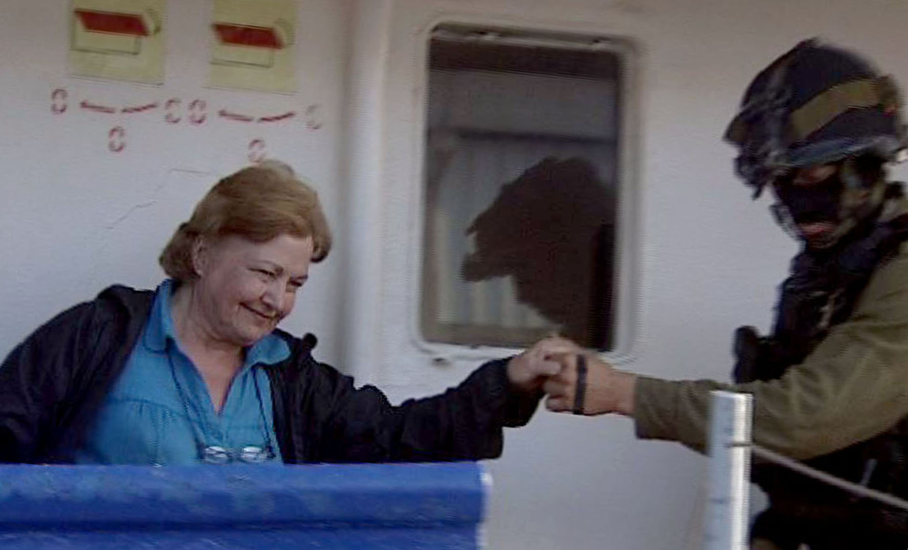 Passengers (Mairead Maguire in the picture) from the seventh flotilla ship arrive at the Ashdod Port accompanied by IDF Naval Special Forces. The ship had been boarded by the IDF and with full compliance of the crew, instructed the ship’s captain to sail to the Ashdod Port after it had attempted to break the maritime closure of the Gaza Strip. Nineteen people were on board the boat, including eight crew members, all of whom were transferred to the custody of the appropriate authorities of the Interior Ministry. For more information: wp.me/ppbEs-tH